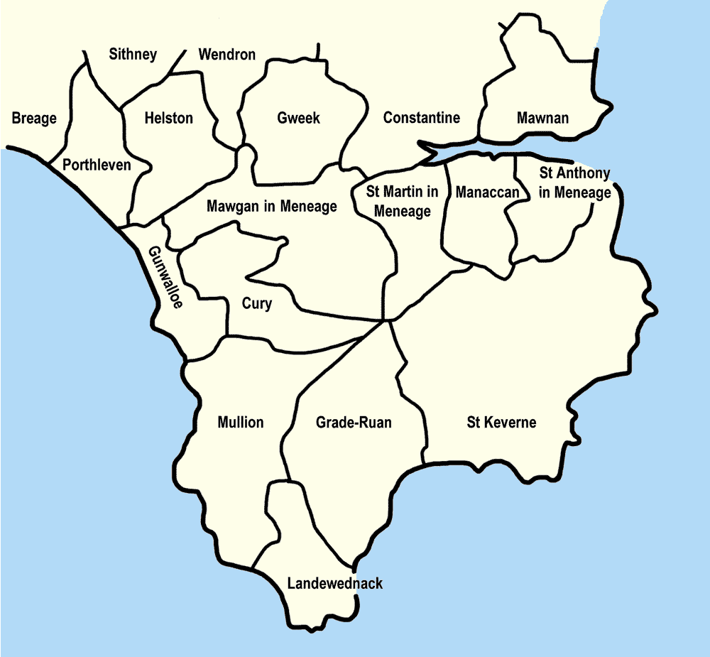 Sketch map of the civil parishes on The Lizard peninsula in Cornwall, UK